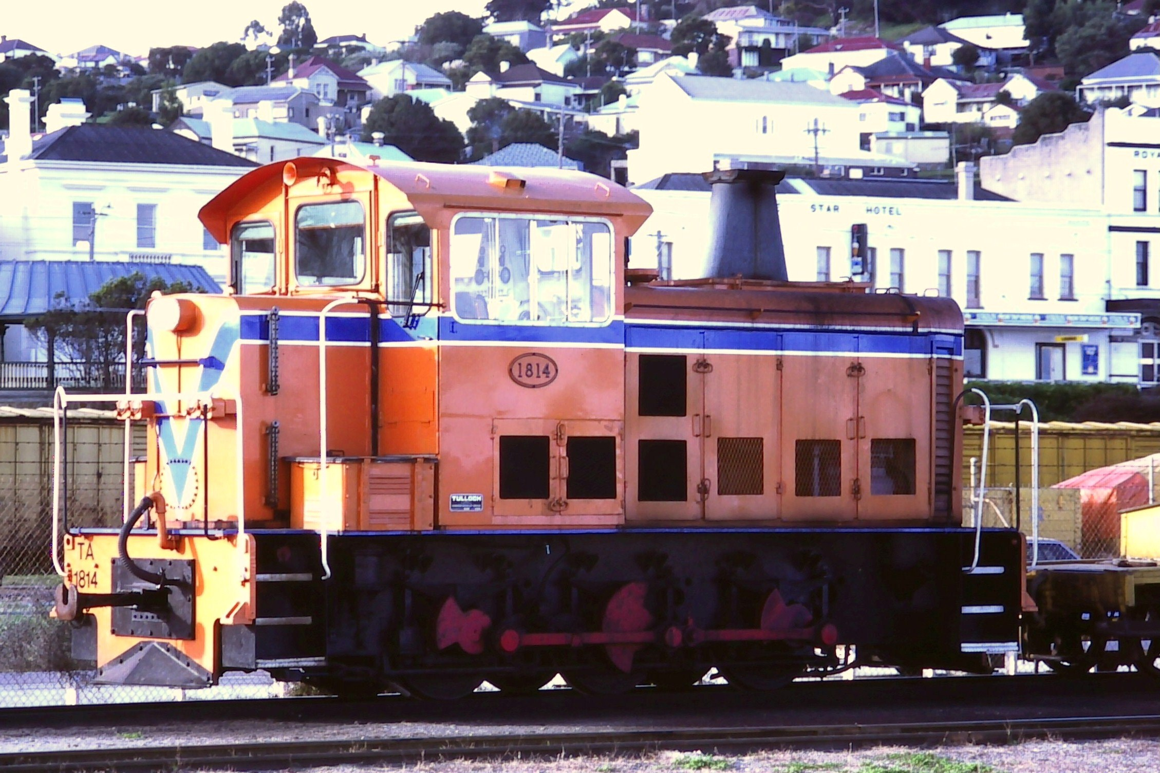 Western Australian Government Railways T class diesel-electric shunting locomotive no TA1814, in Westrail orange and blue livery, rests between shunting duties at Albany railway station, Western Australia.Kodachrome slide converted by Kaiser Baas Photo Maker Pro into a digital image.